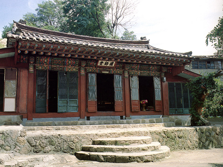 Guksa-dang shamanic shrine at Inwangsan. Originally located at Namsan, removed in 1925 to make way for a Shinto shrine (itself since removed).